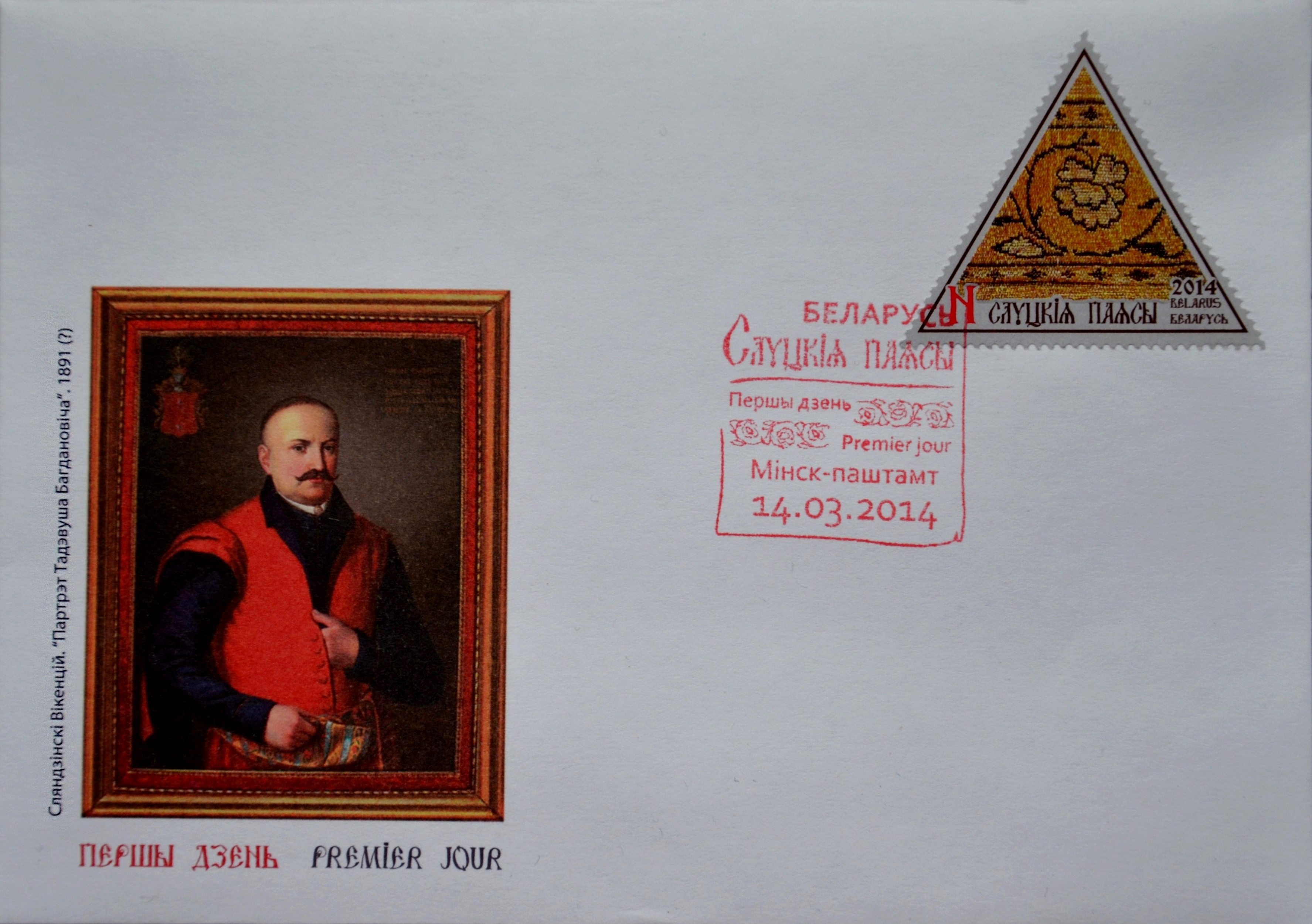 Envelope of the first day "Slutsk Sashes" with Vikenti Slendinsky's Tadeush Bogdanovich's portrait. Design of brand, stamp and envelope - Helen Medved .